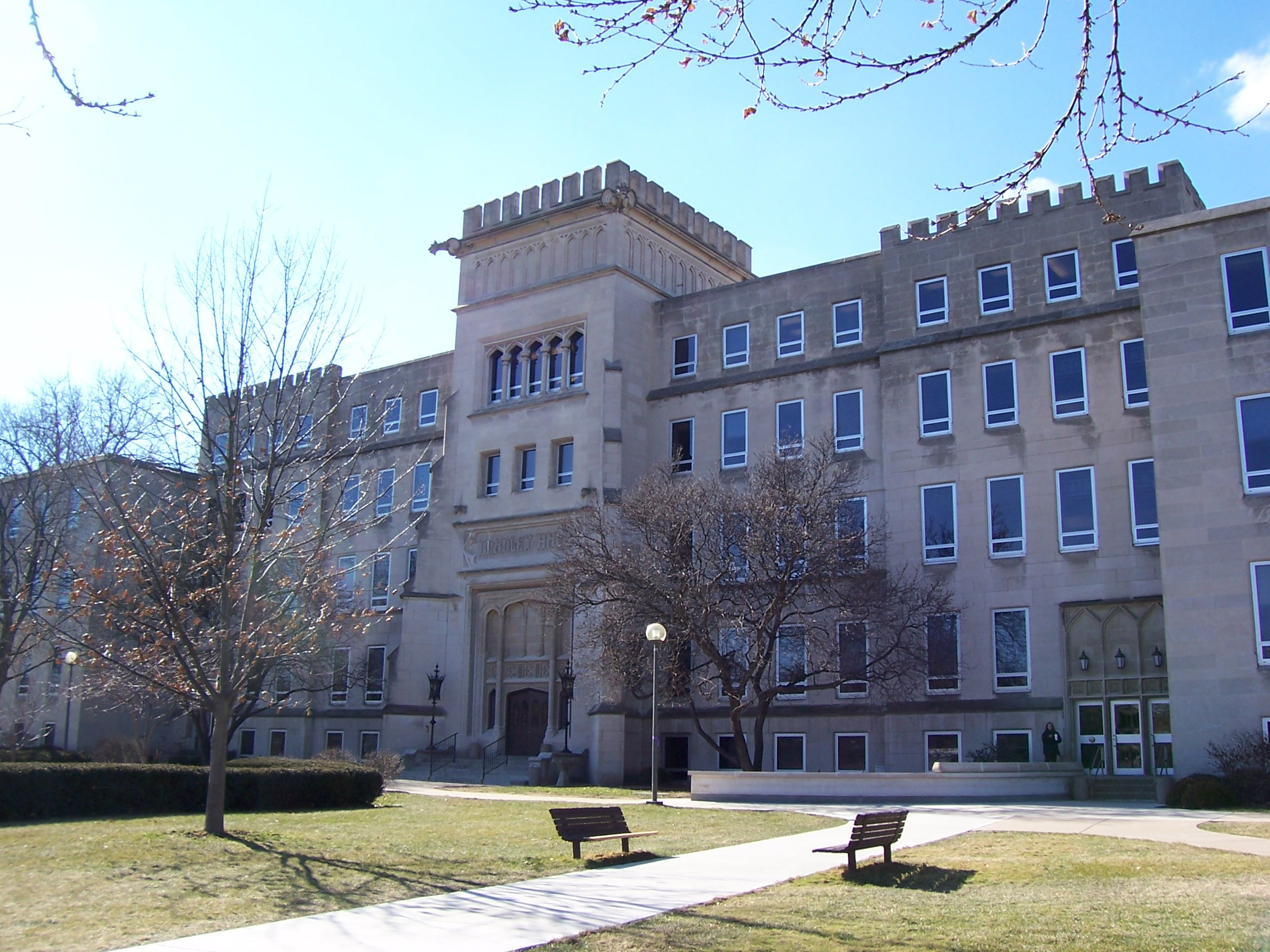 Bradley University's Bradley Hall, taken 2006-02-08.